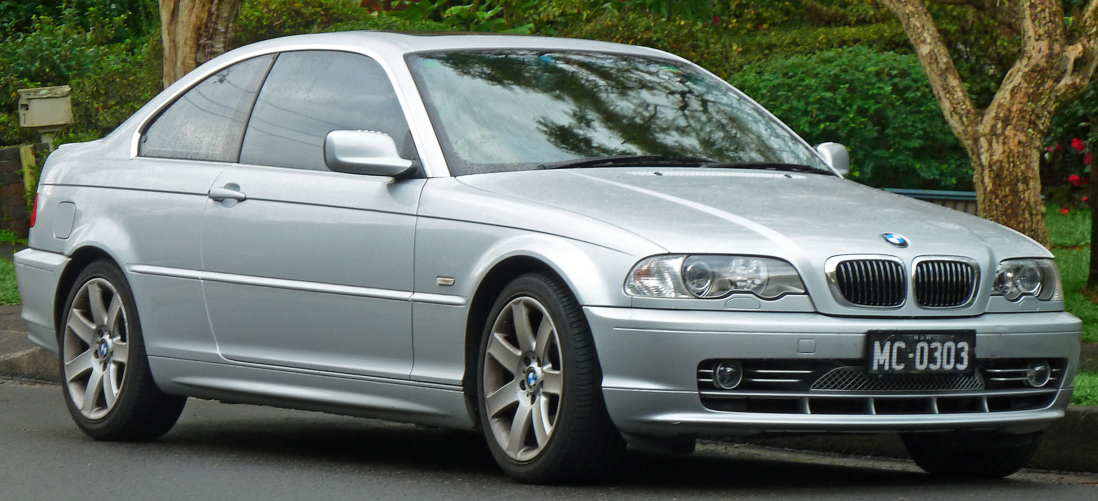 2000–2003 BMW 330Ci (E46) coupe. Photographed in Roseville, New South Wales, Australia.